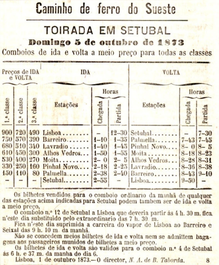 Advertisement of the Caminho de Ferro do Sueste (Portuguese Southeastern Railway) for special trains at reduced prices from Lisbon (boats to Barreiro) to Setúbal, for a bullfighting event. This image was published on the Diario Illustrado newspaper No. 418, of 2nd October 1873, and scanned by the Biblioteca Nacional de Portugal.